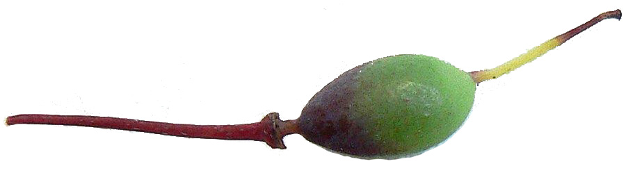 Small drupe of Persoonia nutans from Agnes banks